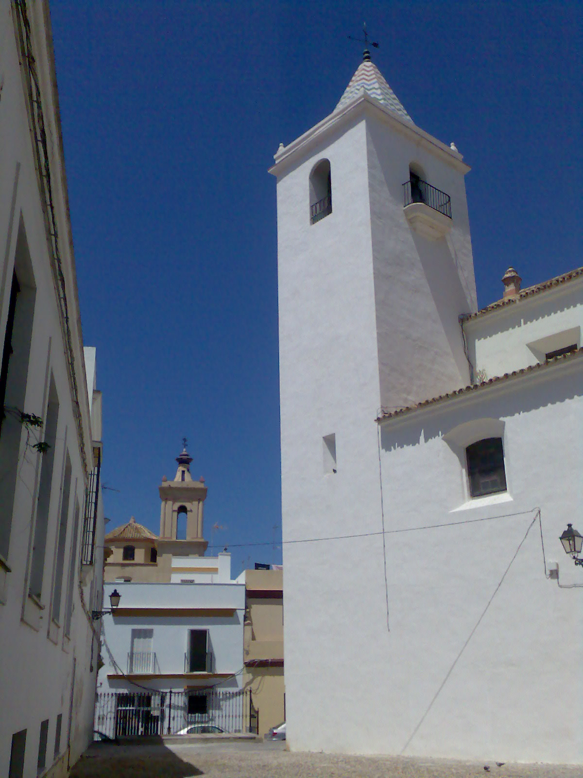 San Sebastian church, behind San Jose church